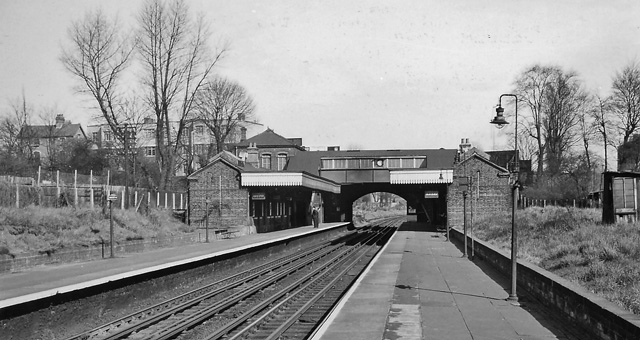 Brondesbury Park Station. View NE, towards Dalston Junction and Broad Street; ex-North London line. See also Brondesbury at TQ2484 : Brondesbury Station.